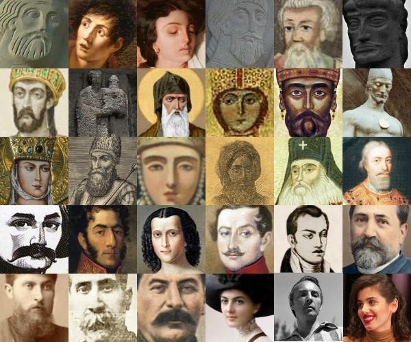 Compilation of famous Georgians.